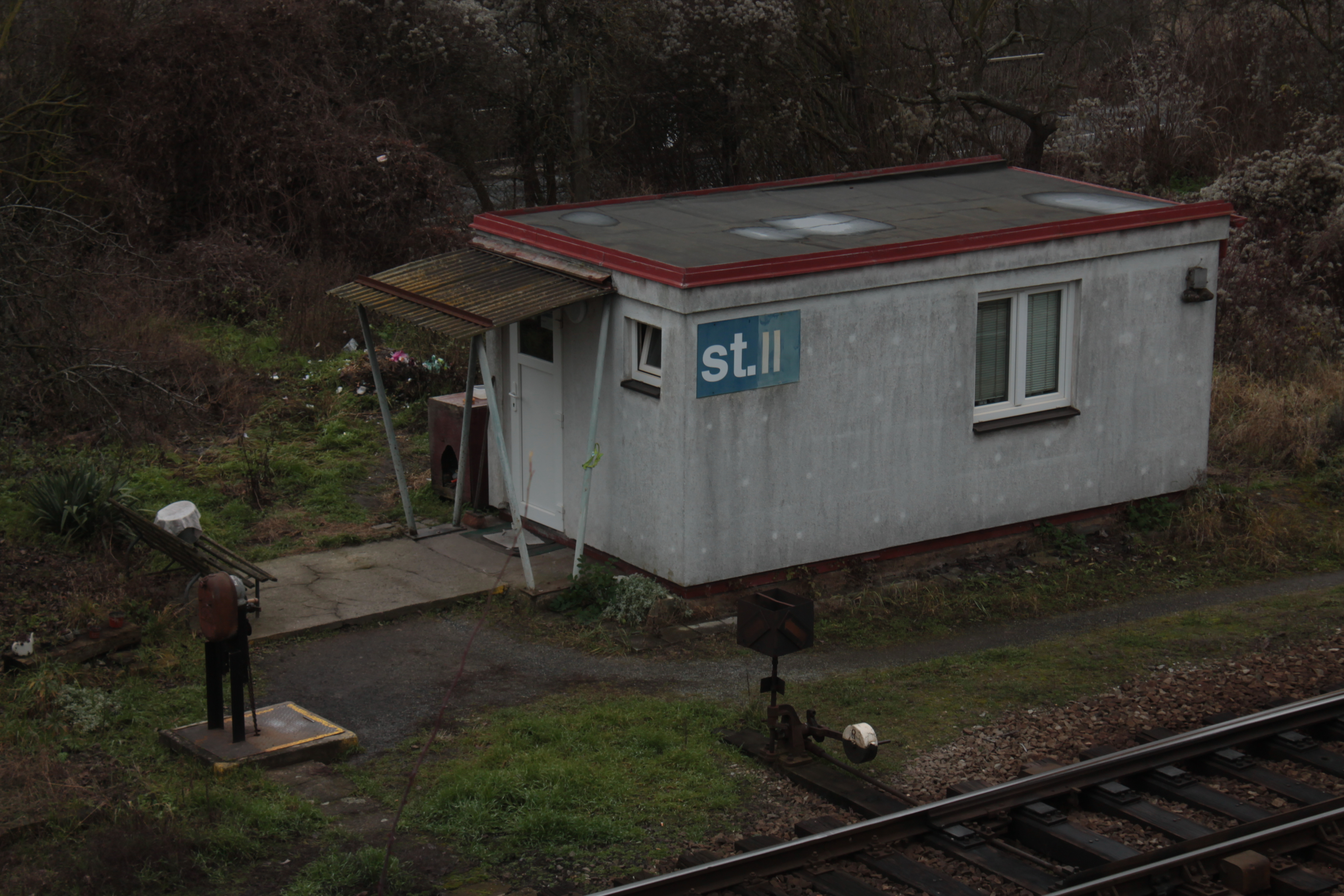 Stanoviště výhybkáře v žst. Žalhostice